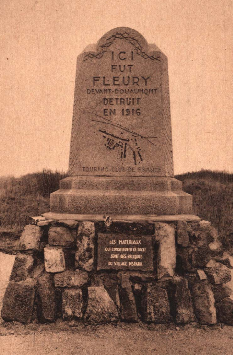 Destroyed village in 1916